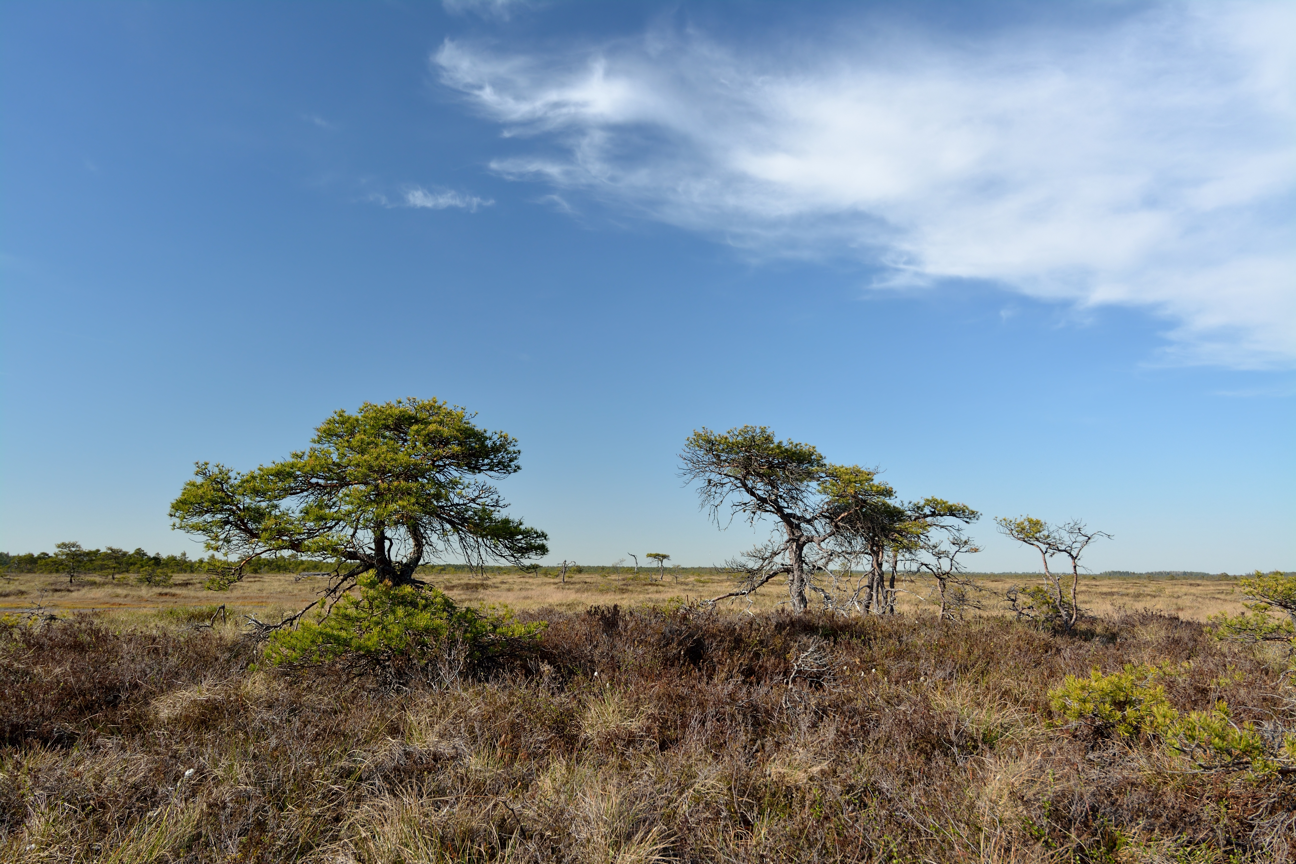 Pinus sylvestris in Marimetsa bog.